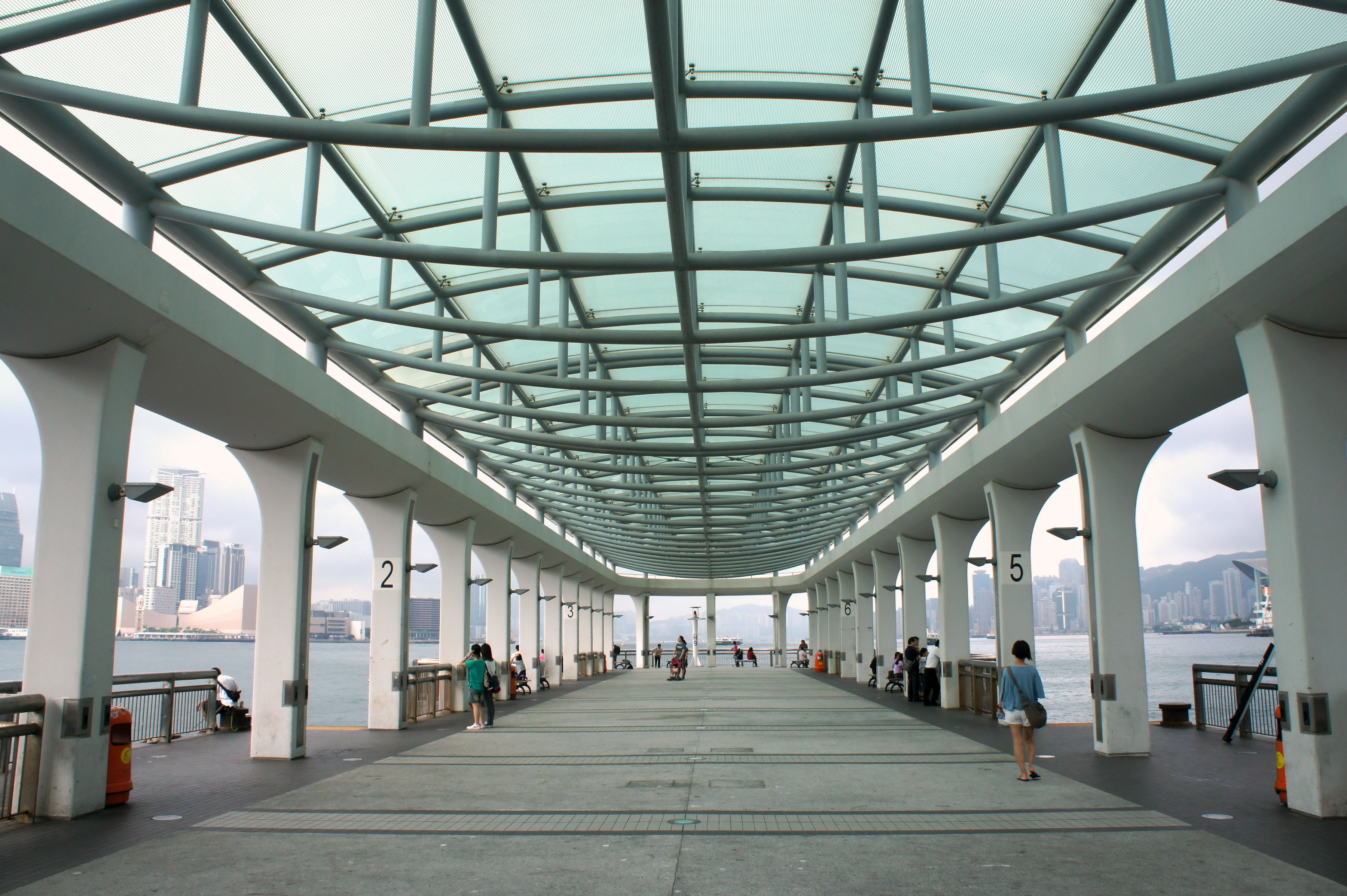 Central Pier No. 9, Hong Kong.中文（香港）: 中環渡輪碼頭，9號碼頭的玻璃天幕設計。